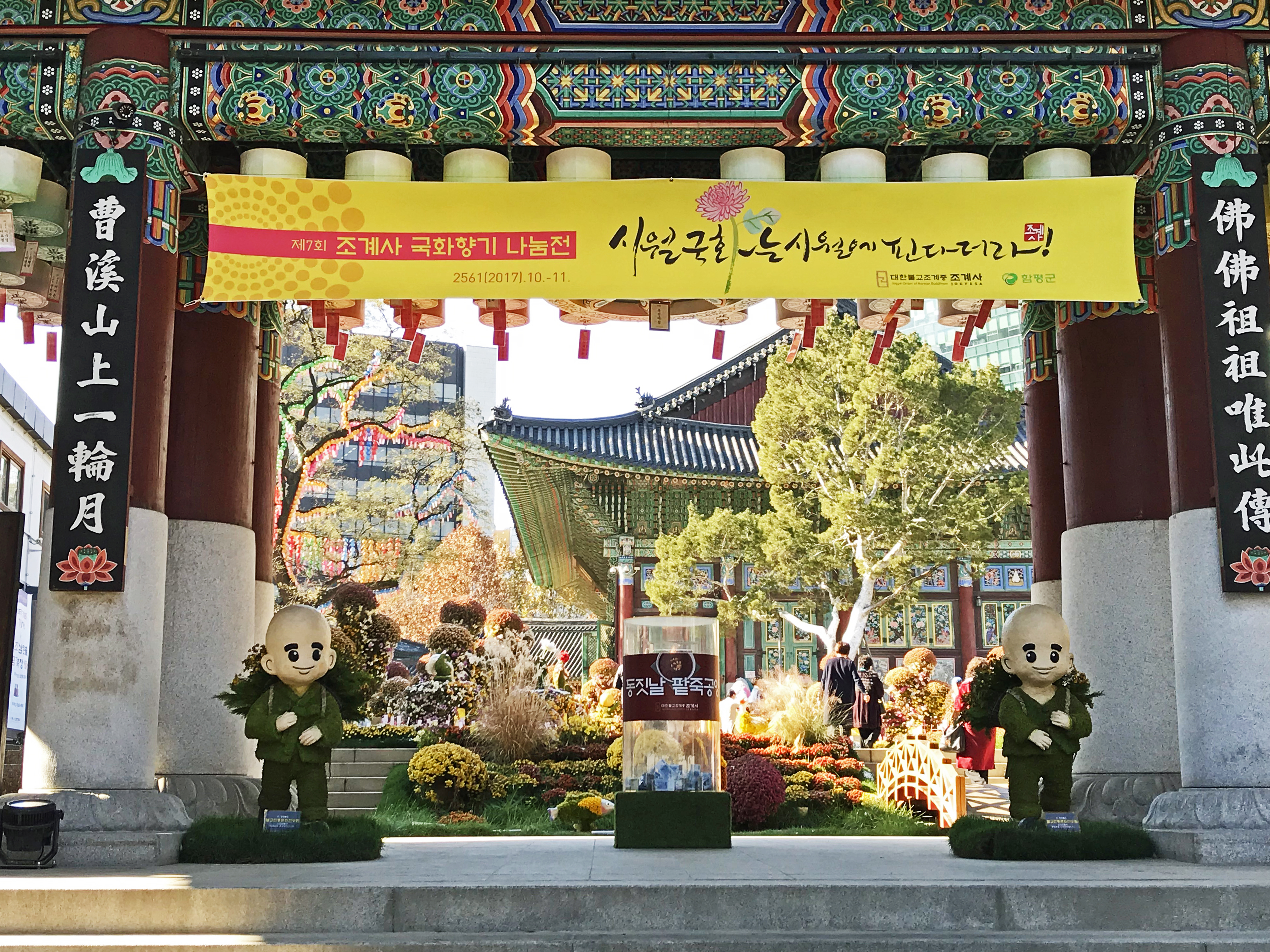 Entrance to the Jogyesa Temple. Eingang zum Jogyesa-Tempel. You're welcome to use this picture free of charge, as long as you follow the license terms. As a matter of courtesy a link (dofollow links are welcome!) to is much appreciated. Thank you! ————————–—–—–—–—–—–—–—–—–—–—–—–—–—–—– Du kannst dieses Bild gemäß der Lizenzbestimmungen unentgeltlich nutzen. Über eine Verlinkung (dofollow am liebsten) auf freuen wir uns. Danke!